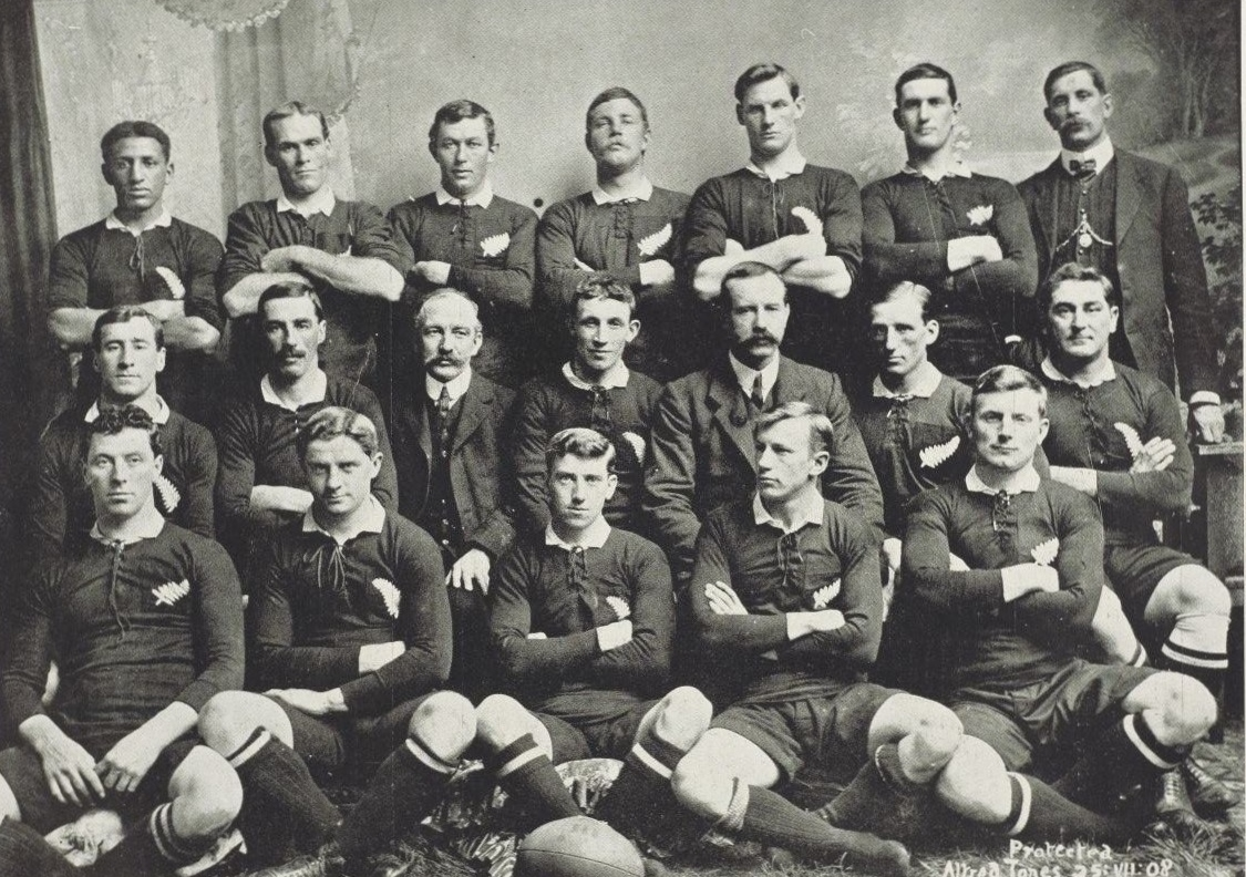 The New Zealand rugby union team that faced the touring Anglo-Welsh side in 1908. Cropped. Back row: Ranji Wilson, Charlie Seeling, H. Hayward, Bob Deans, A. R. H. Francis, A. Paterson, George Nicholson (trainer) Middle row: Fred Roberts, George Gillett, George Dixon (president NZRFU), Billy Stead (captain), Dave Gallaher (selector), Jimmy Hunter, Bill Cunningham Front row: W. Reedy, J. Collman, F. Mitchinson, D. Cameron, Frank Glasgow.